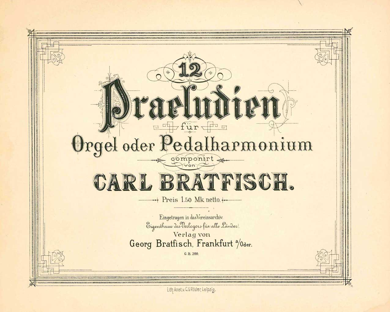 cover page Carl Bratfisch - 12 Preludes